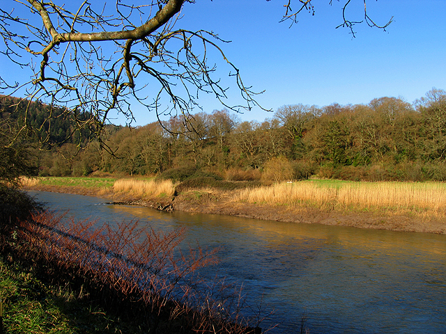 River Wye at Tintern Abbey The Wye River in Winter.